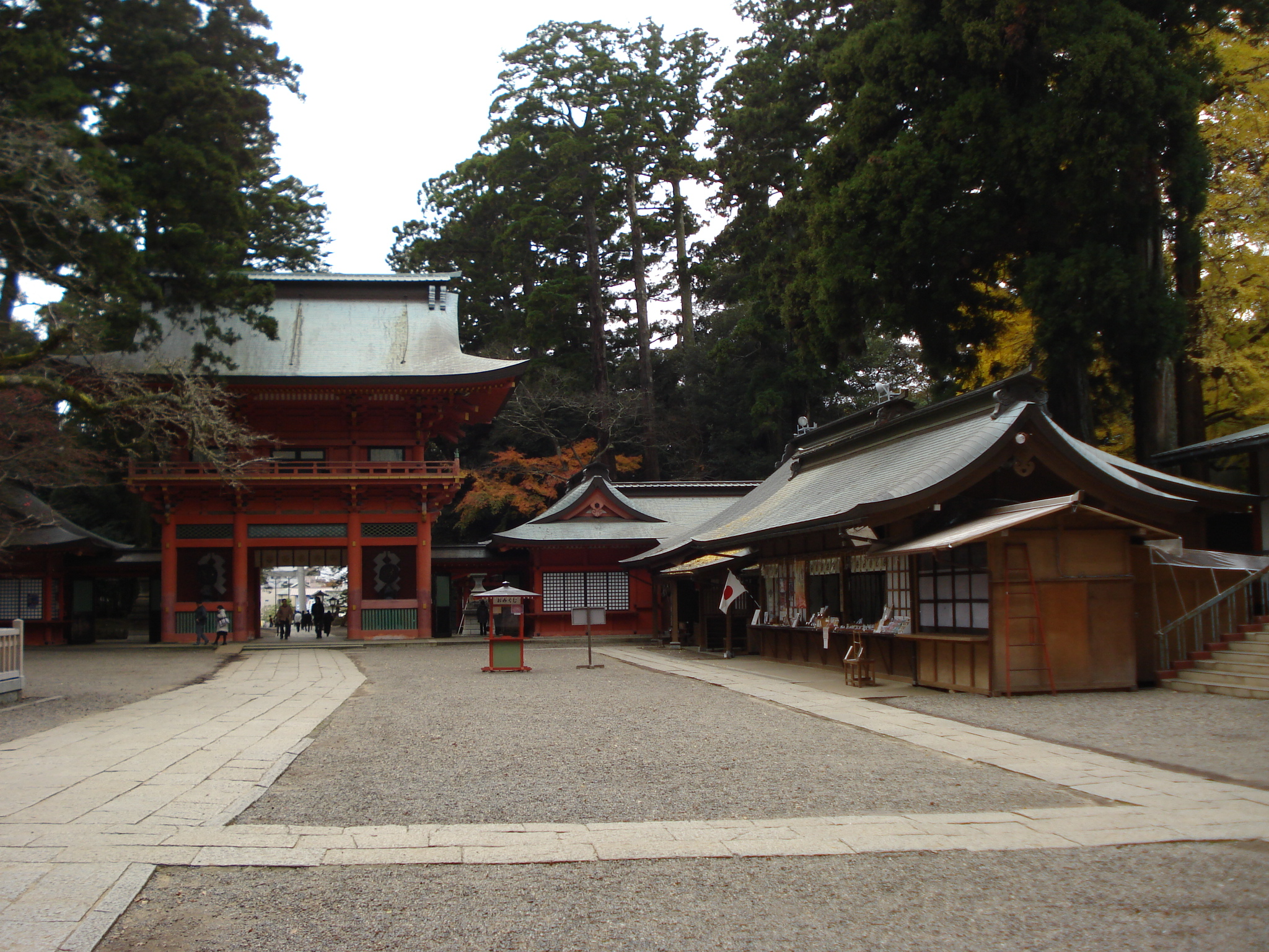 Romon Gate of Kashima-jingu Shrine (Kashima-city, Ibaraki)